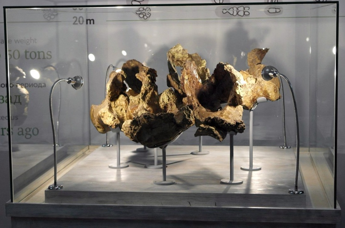 Sibirotitan astrosacralis holotype in Tomsk State University.